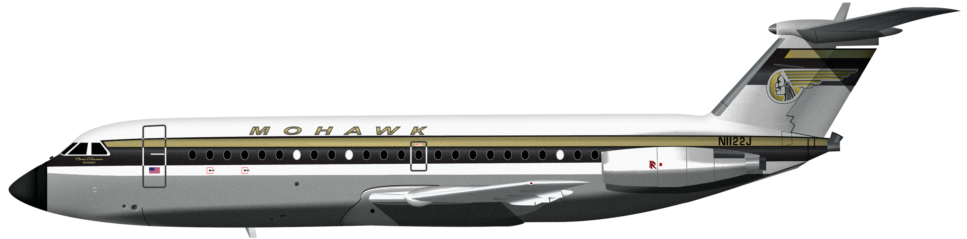 A Mohawk Airlines BAC-111 circa. 1972.